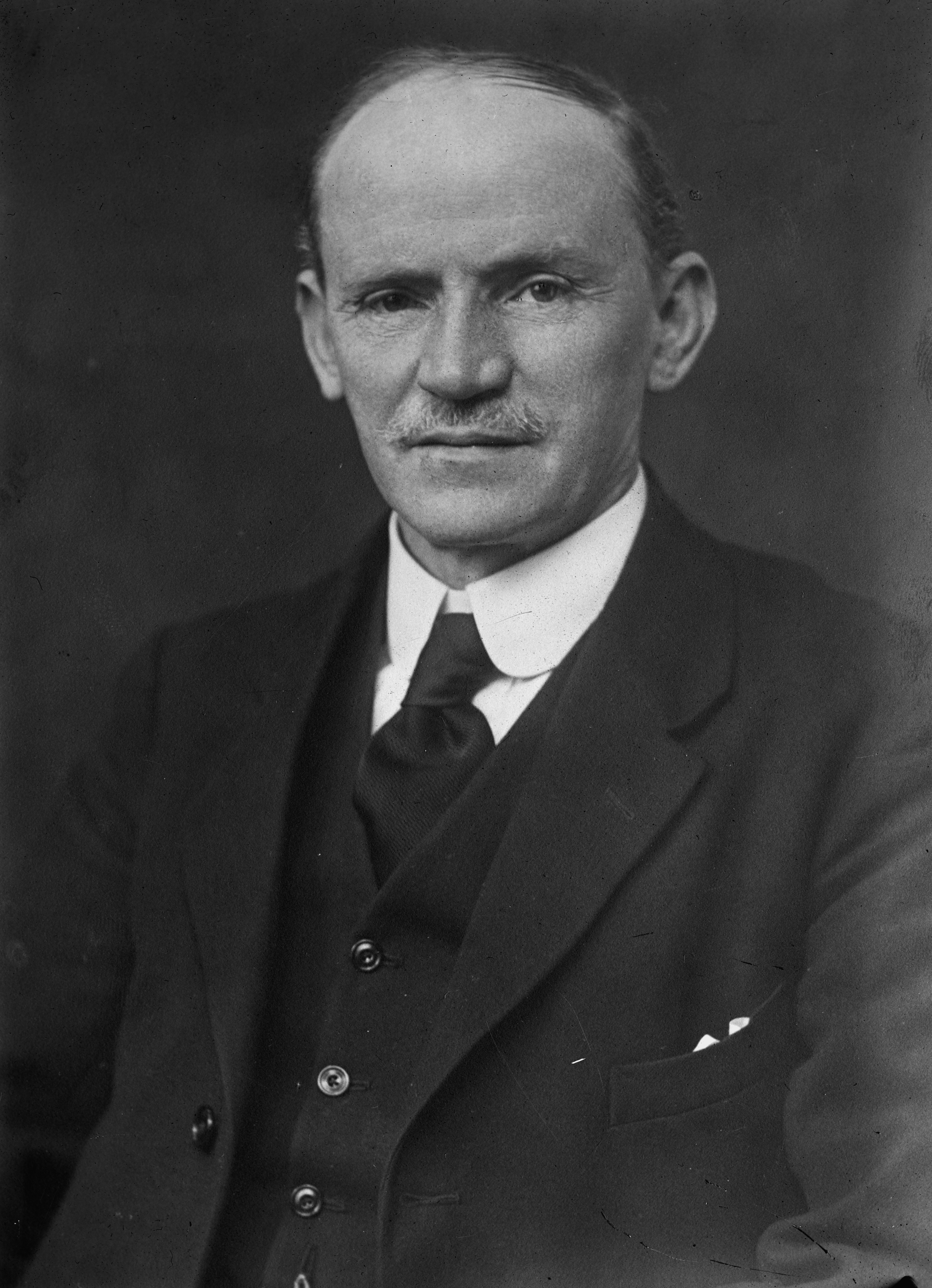 Alfred Fowler (1868 – 1940), a British astronomer